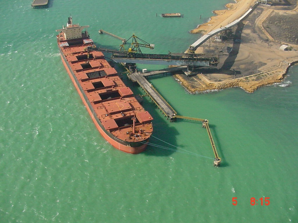 Cerrejón, Colombia